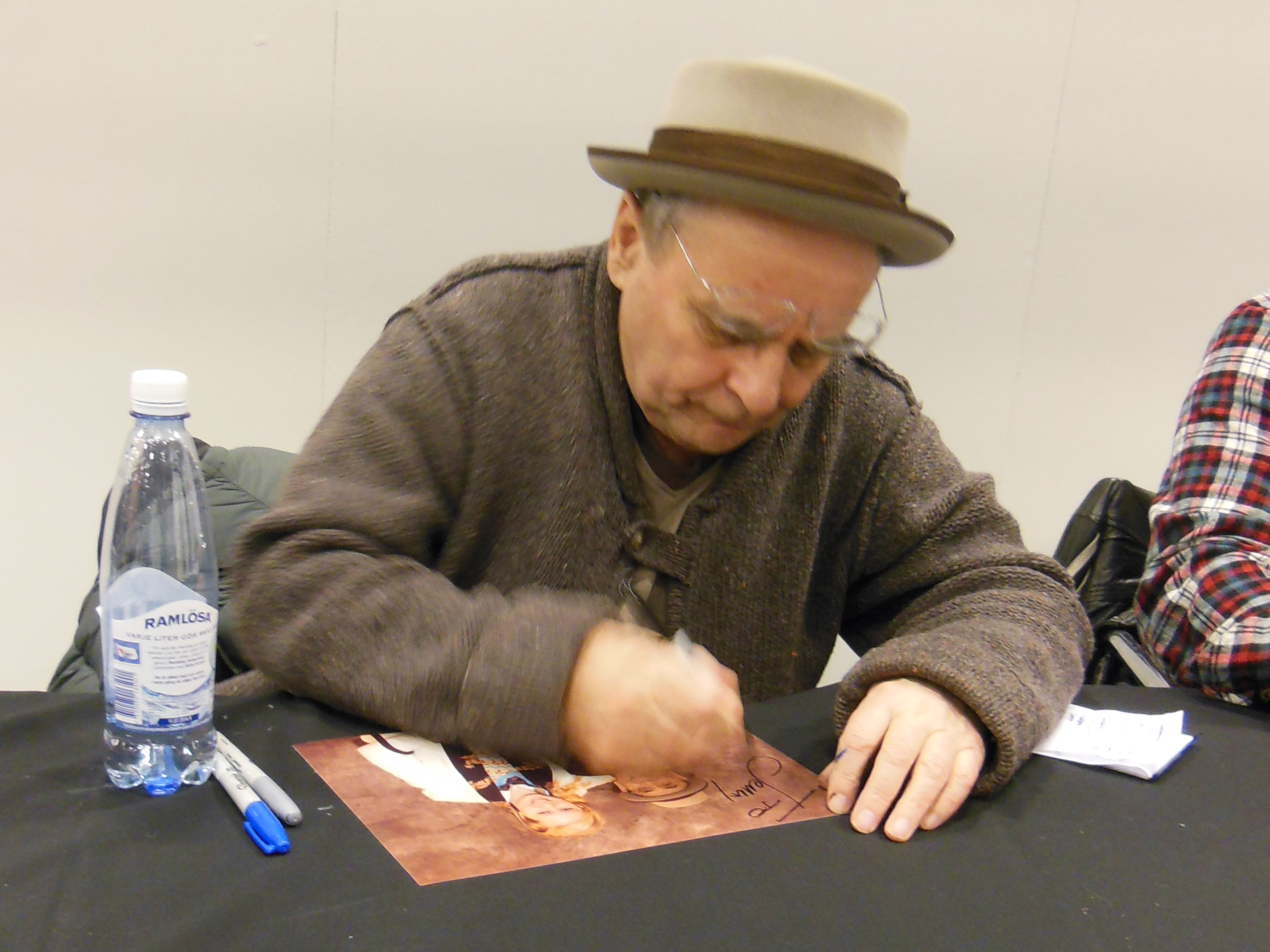 Sylvester McCoy at the Sci-Fi-fair in Malmö 2014